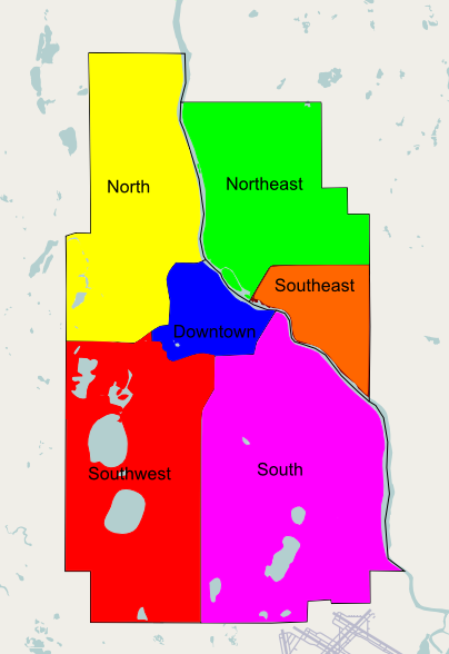 Map of Minneapolis districts, Minneapolis Map of: Minneapolis¤.